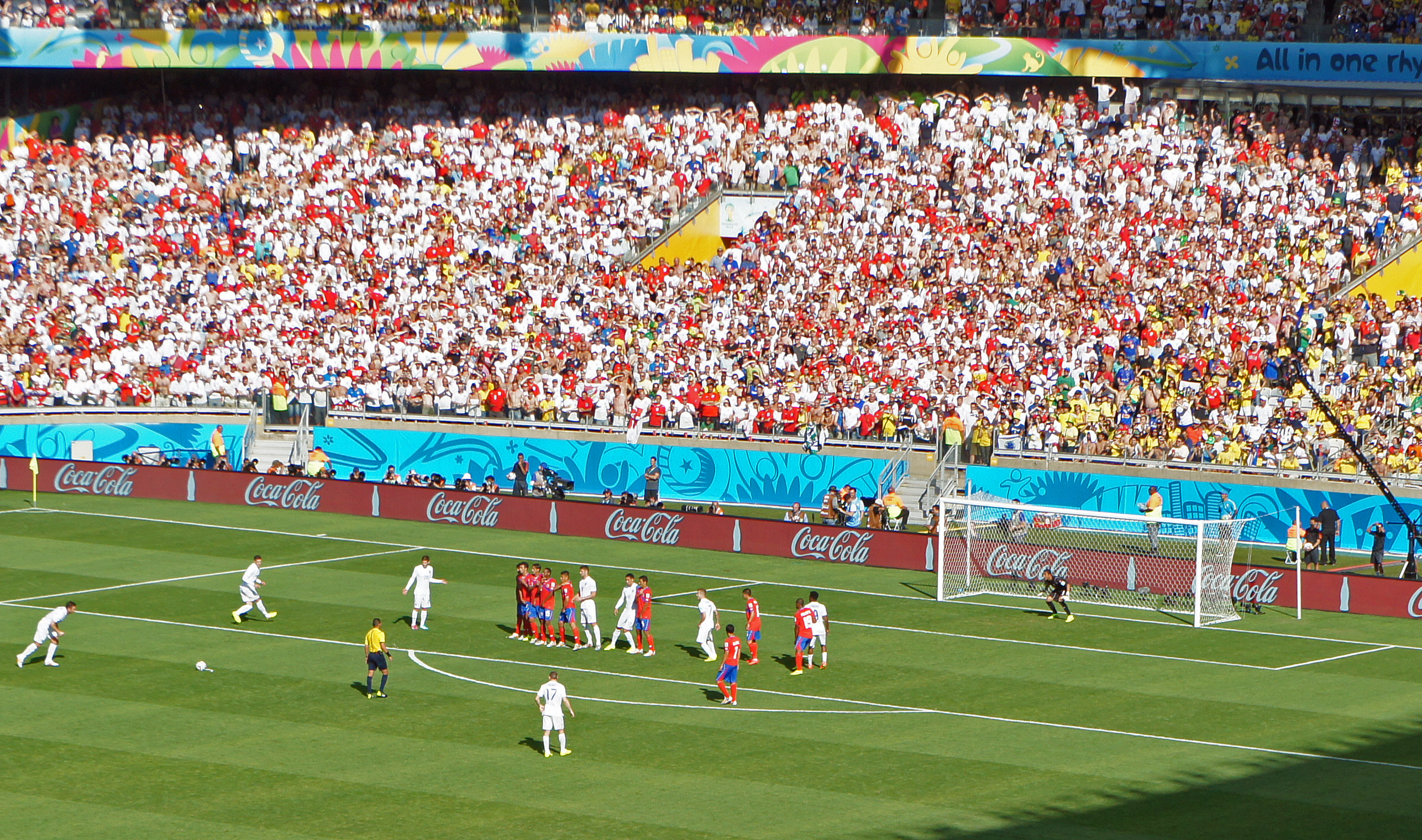 Free kick during the Costa Rica and England match at the FIFA World Cup 2014 at Estádio Mineirão in Belo Horizonte, Brazil. English fans in the background.